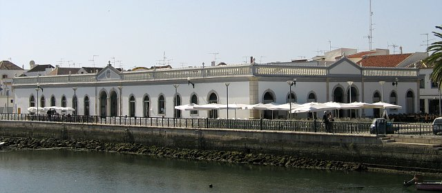 The Mercado Municipal in the town of Tavira, Algarve, Portugal.